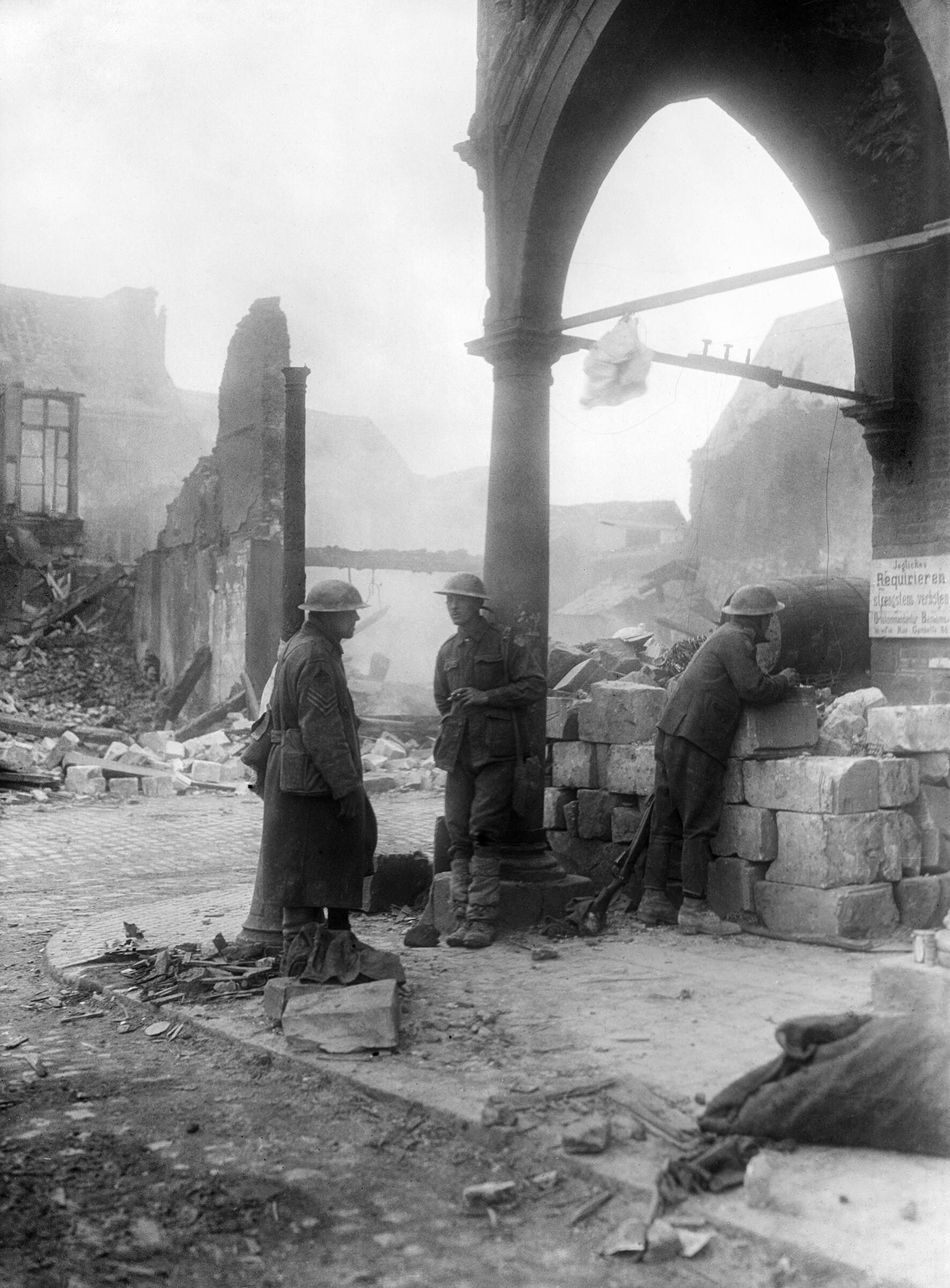 Men of the Australian 2nd Division outside the Mairie in Bapaume, Somme, France. The town was occupied by the Australians on 17 March 1917, following the German withdrawal to the Siegfried Stellung of the Hindenburg Line.